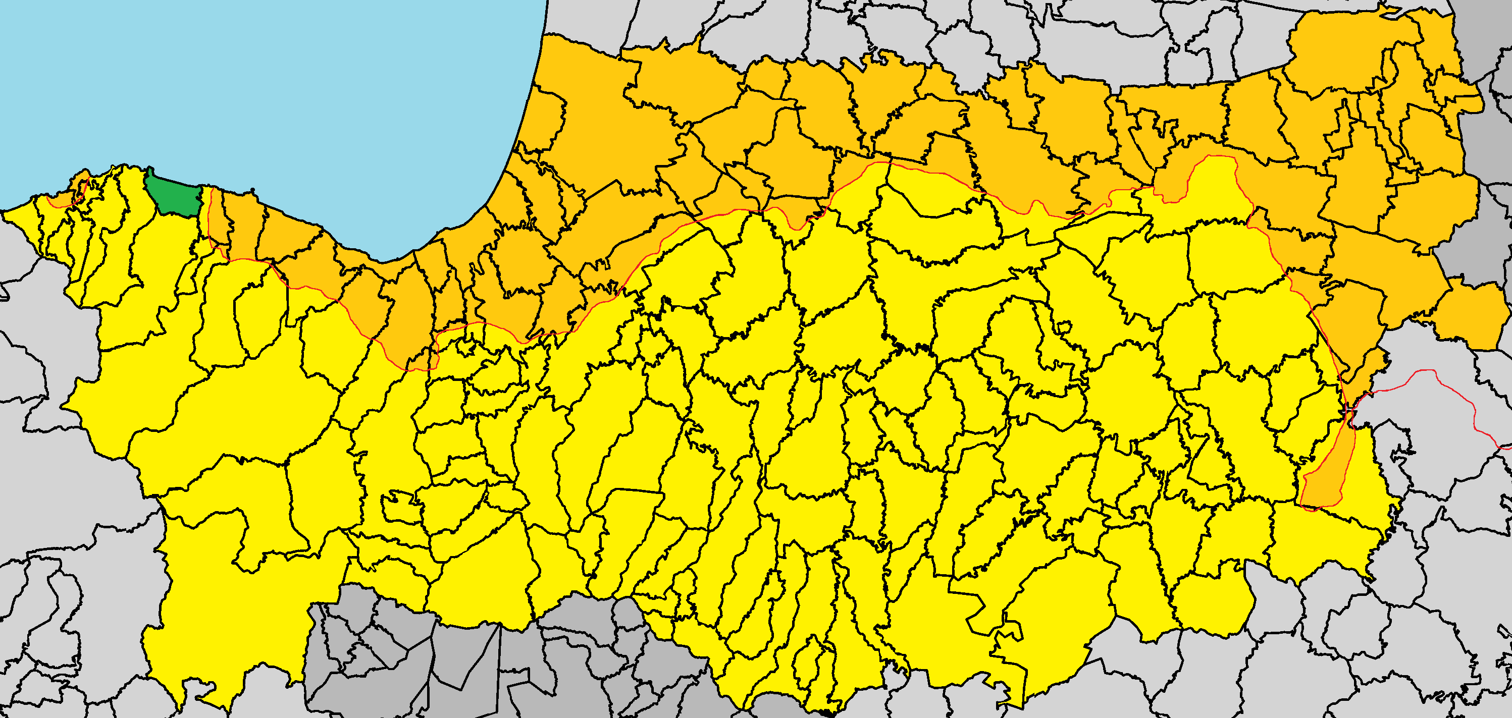 Kato Pyrgos in Nicosia District.